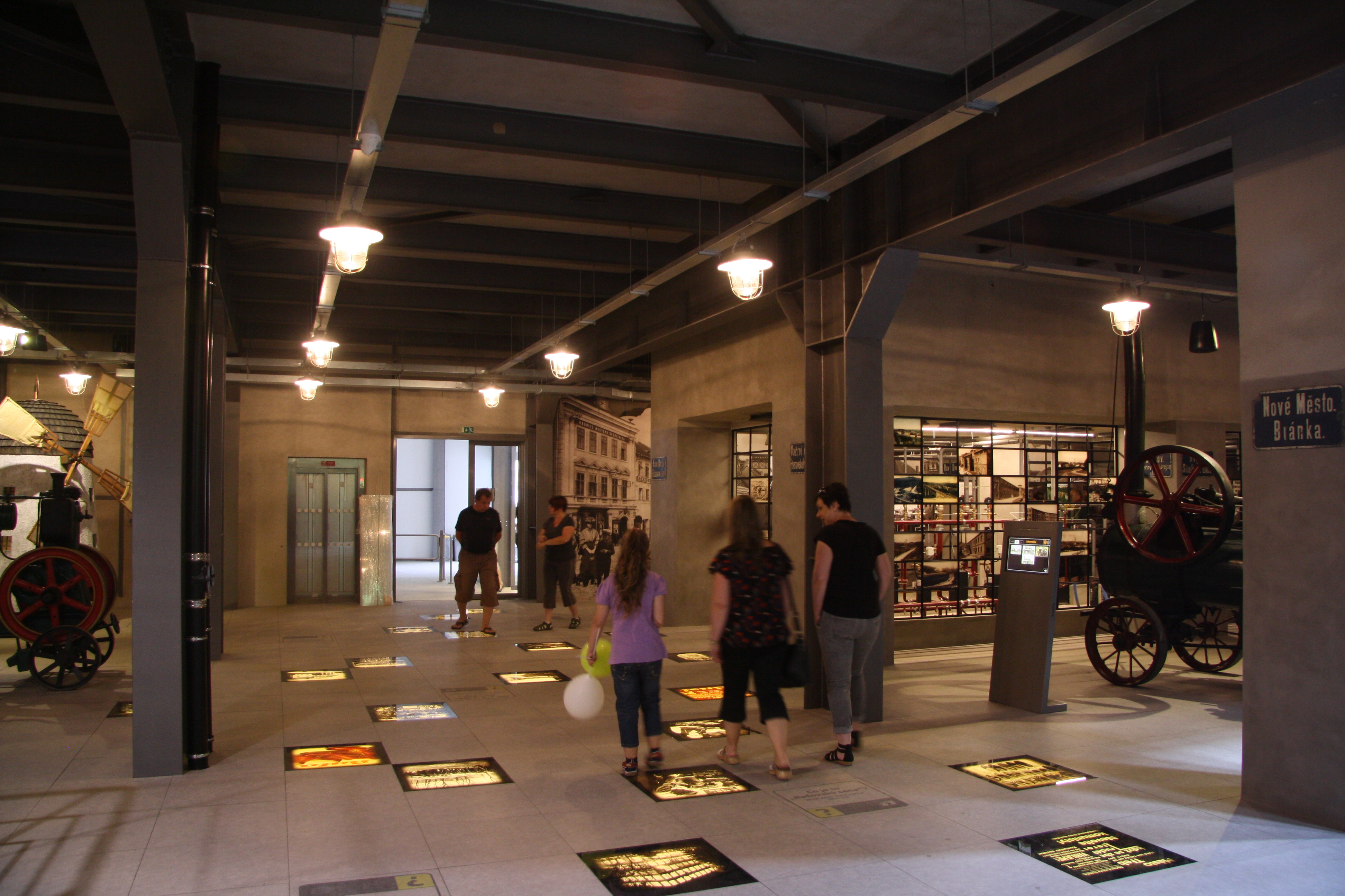 Historical exhibition in Alternátor science center in Třebíč, Třebíč District.